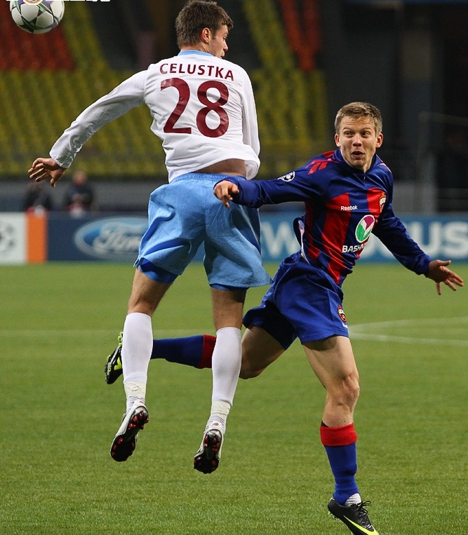 Ondřej Čelůstka playing against CSKA Moscow in a UEFA Champions League match for Trabzonspor in 2011.